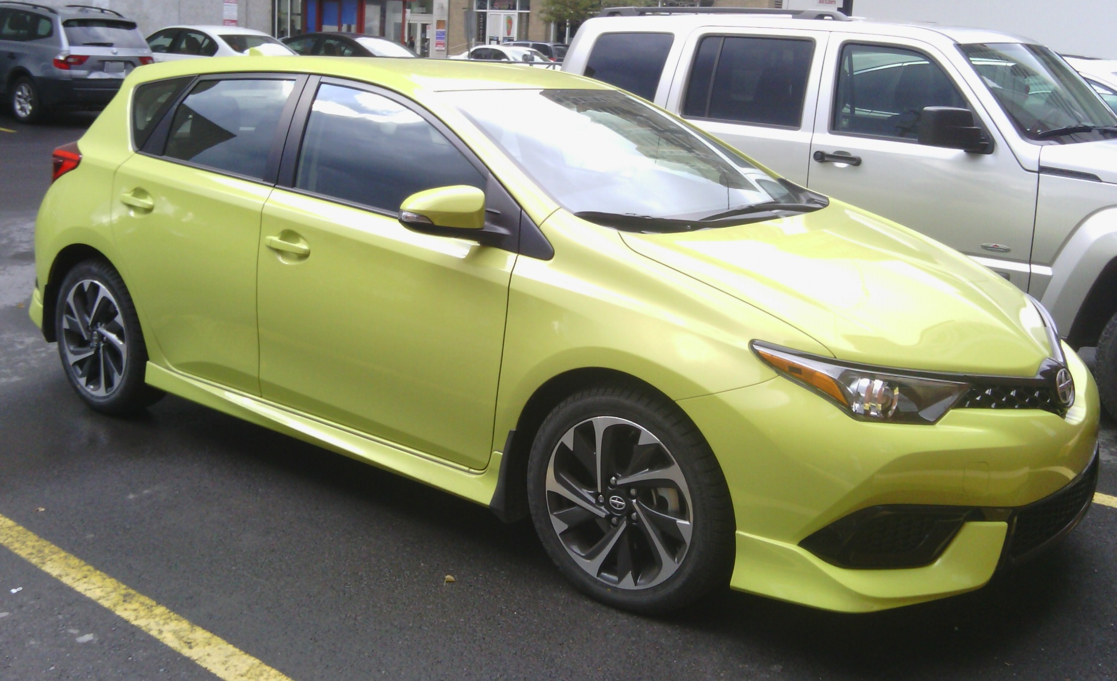 2016 Scion iM photographed in Westmount, Quebec, Canada.